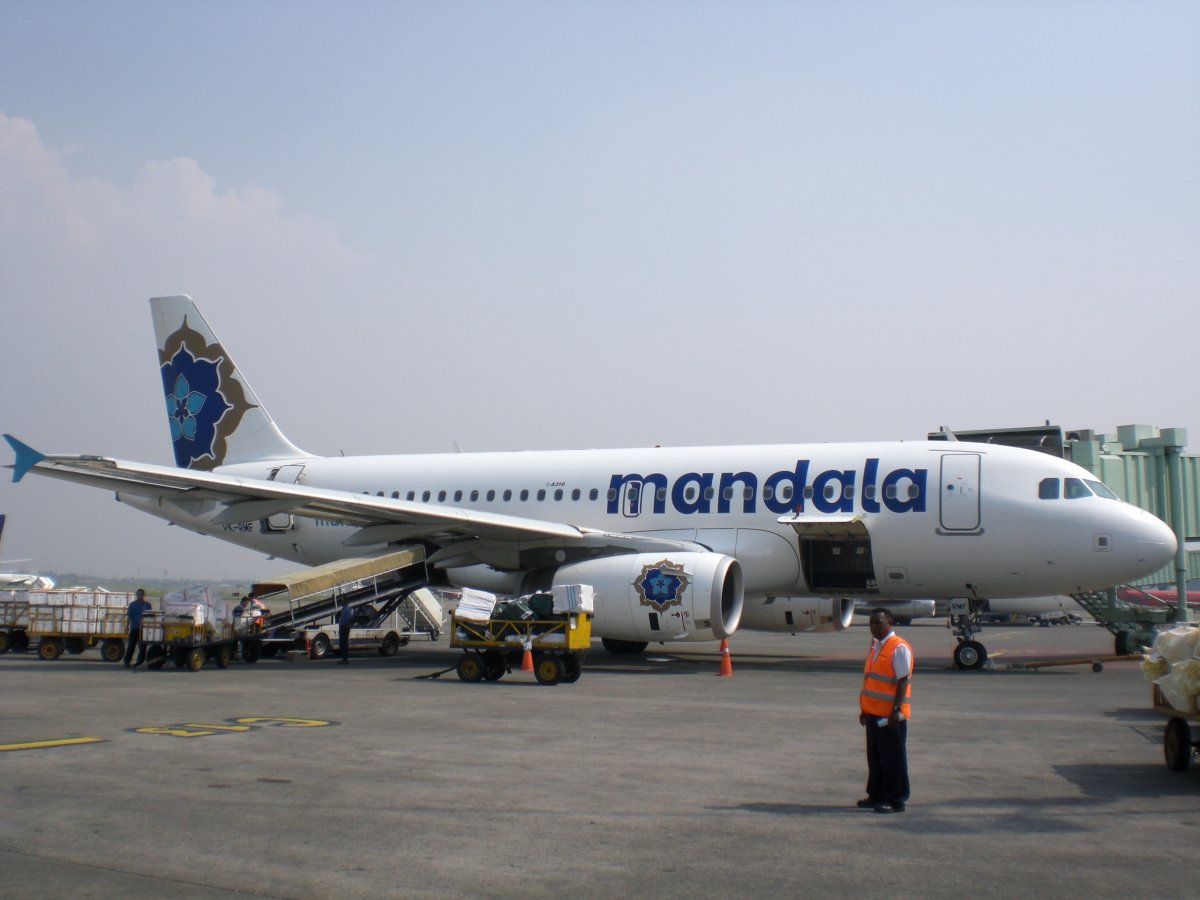 "New" Airbus 319-100 from Mandala Airlines; Jakarta Int. Airport